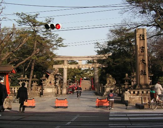 Main torii at the Sumiyoshi shrine in Osaka